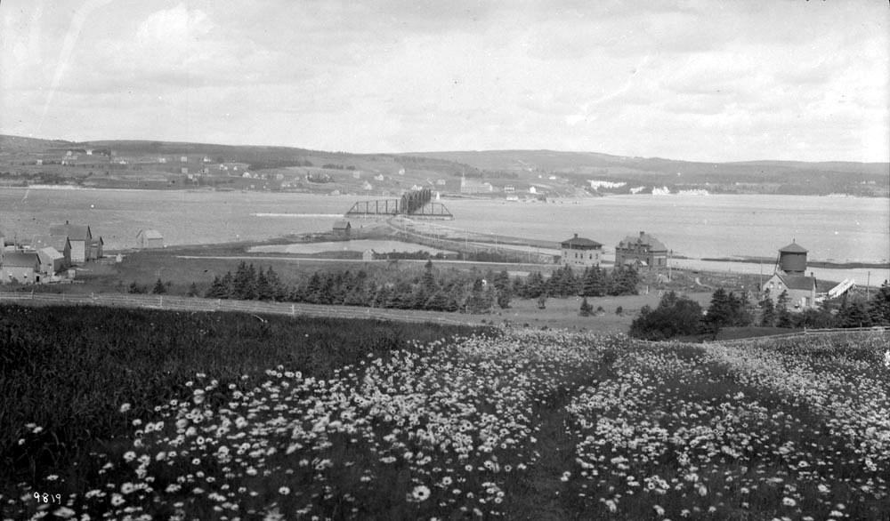 Grand Narrows, Cape Breton Island, Nova Scotia Canada, looking towards Iona. The Grand Narrows Bridge of the Intercolonial Railway is visible in the centre of the photo, with the swing span open to permit shipping the transit the Barra Strait.